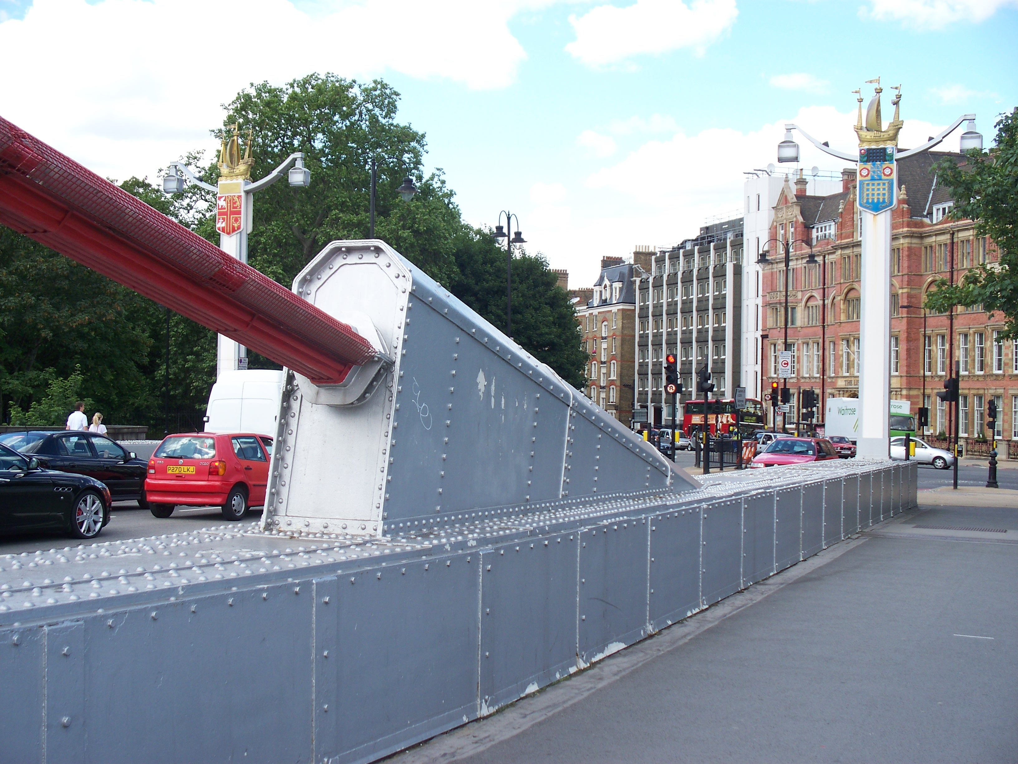 Suspension cable of Chelsea Bridge, London. Photograph taken in a public location in the UK of a building on permanent public display, and exempt from copyright under Section 62 of the Copyright Designs & Patents Act 1988 ("it is not an infringement of copyright to film, photograph, broadcast or make a graphic image of a building, sculpture, models for buildings or work of artistic craftsmanship if that work is permanently situated in a public place or in premises open to the public")